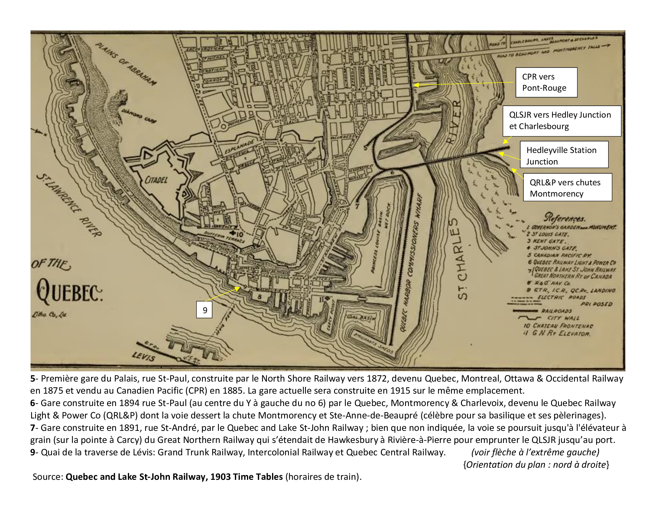 Map of 3 train stations in Quebec city: CPR, Q&LSJR and Quebec Railway Light & Power (former Quebec, Montmorency & Charlevoix).